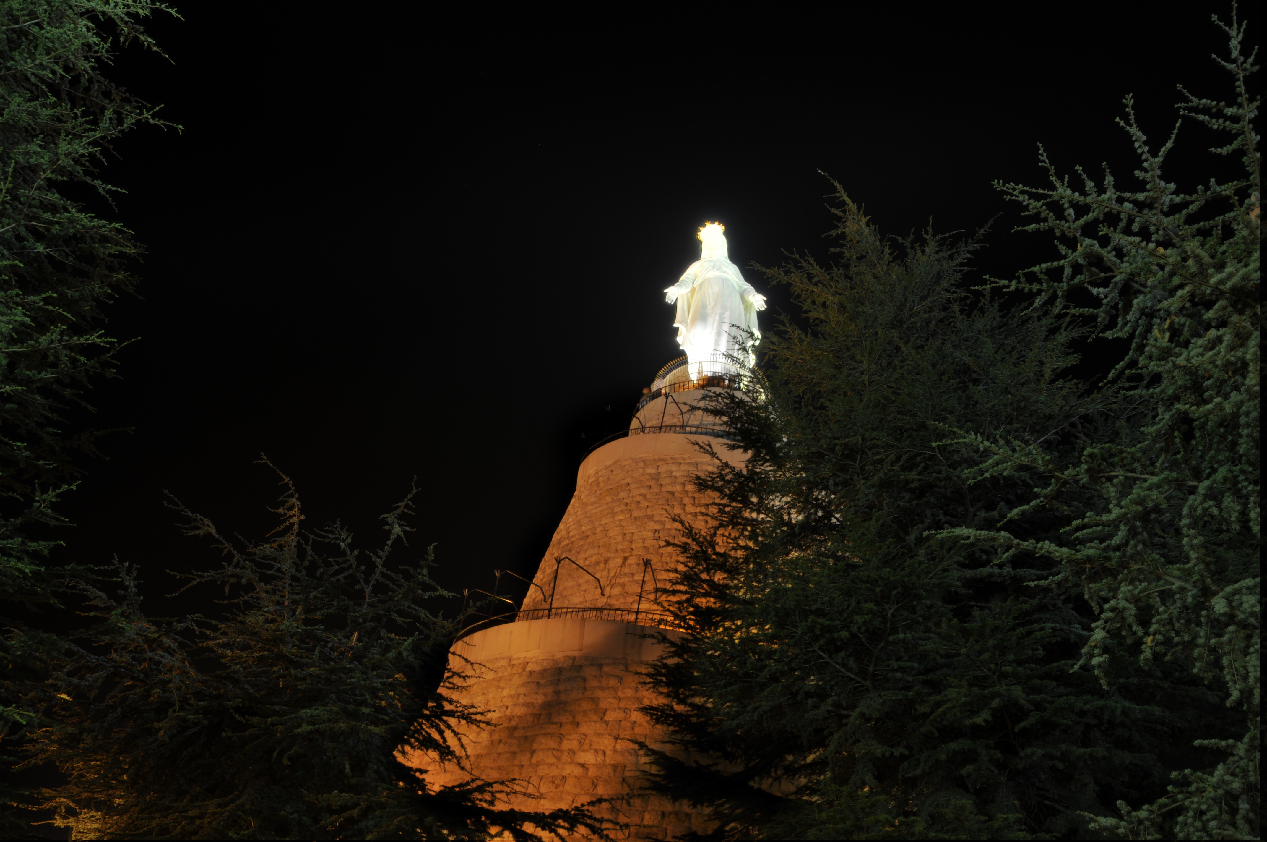 used 2 exposures one brighter than the other. layered them and use Layer Mask.